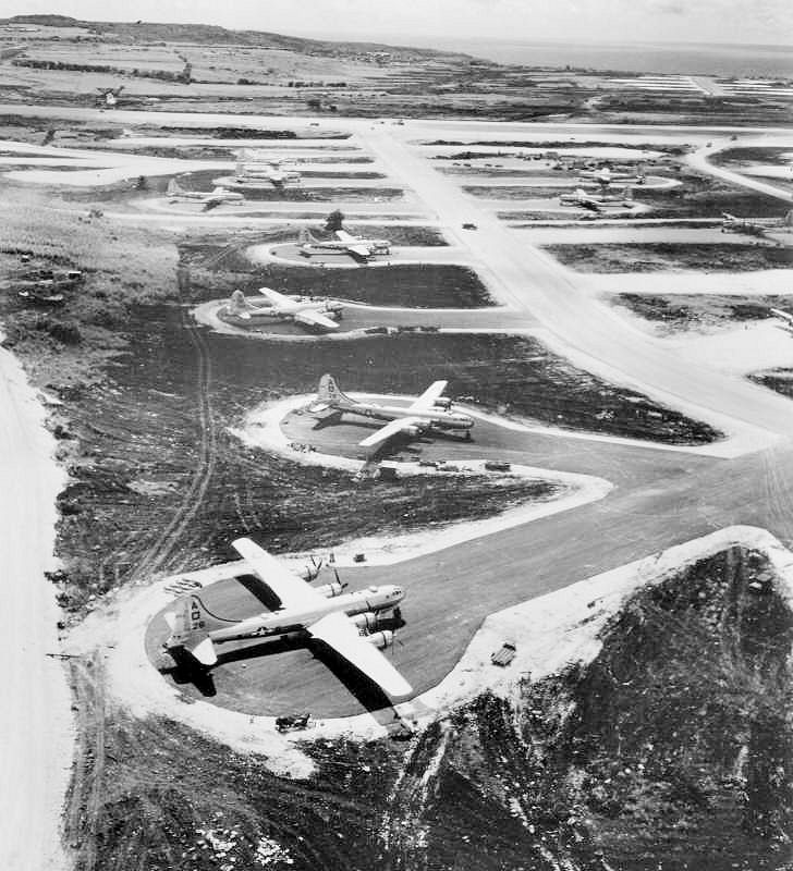 497th Bombardment Group B-29s on Hardstands Isley Field Saipan